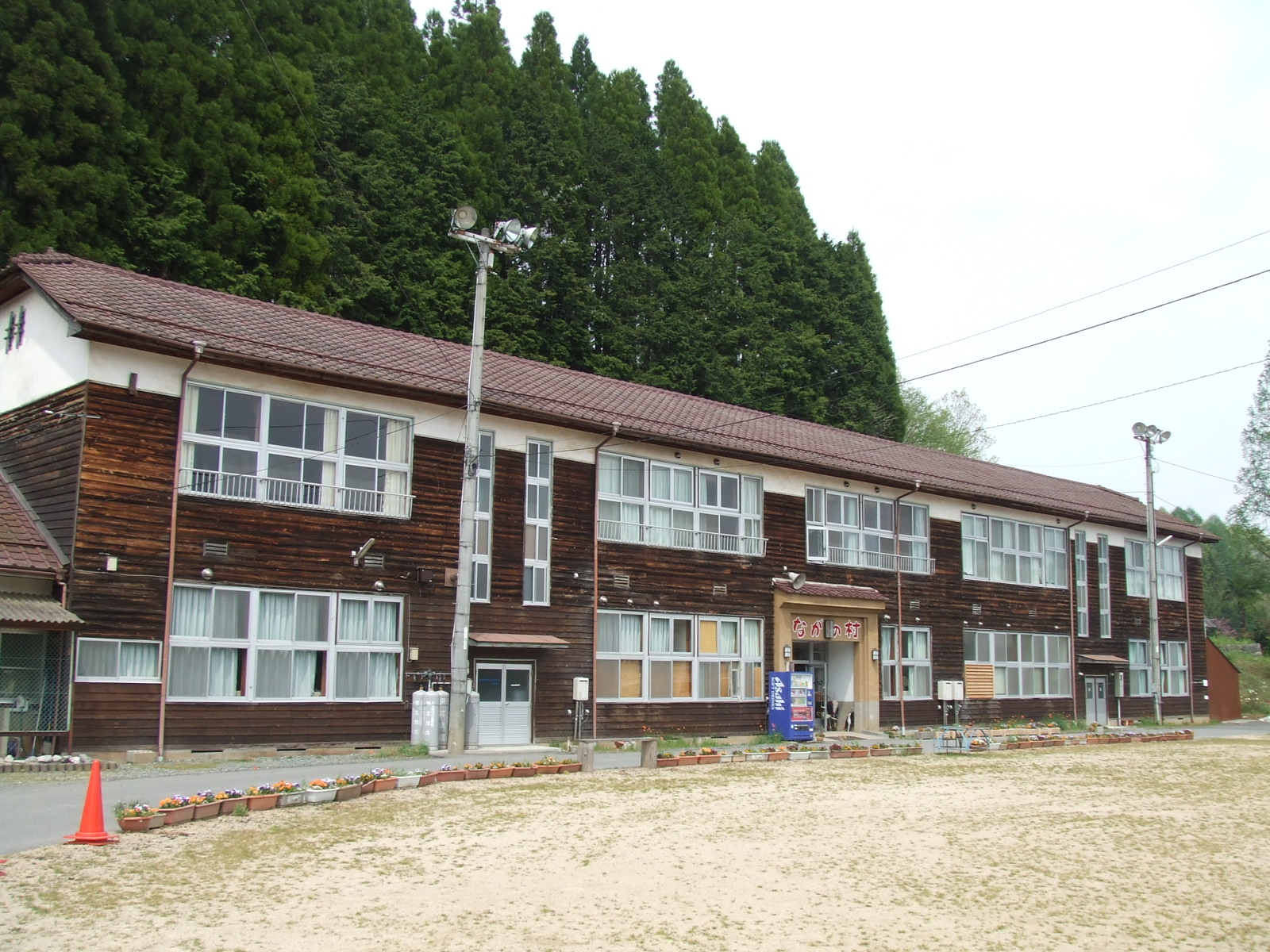 Naganomura village in Jinsekikogen town